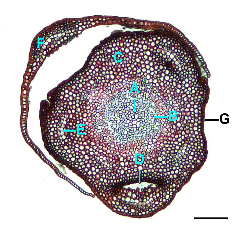 Photomicrograph of a cross section through a moss stem. A-Hydroid, B-Leptoid, C-Cortex, D-Developed leaf vascular tissue, E-Developing leaf vascular tissue, F-Leaf, G-Epidermis. Scale=0.2mm.